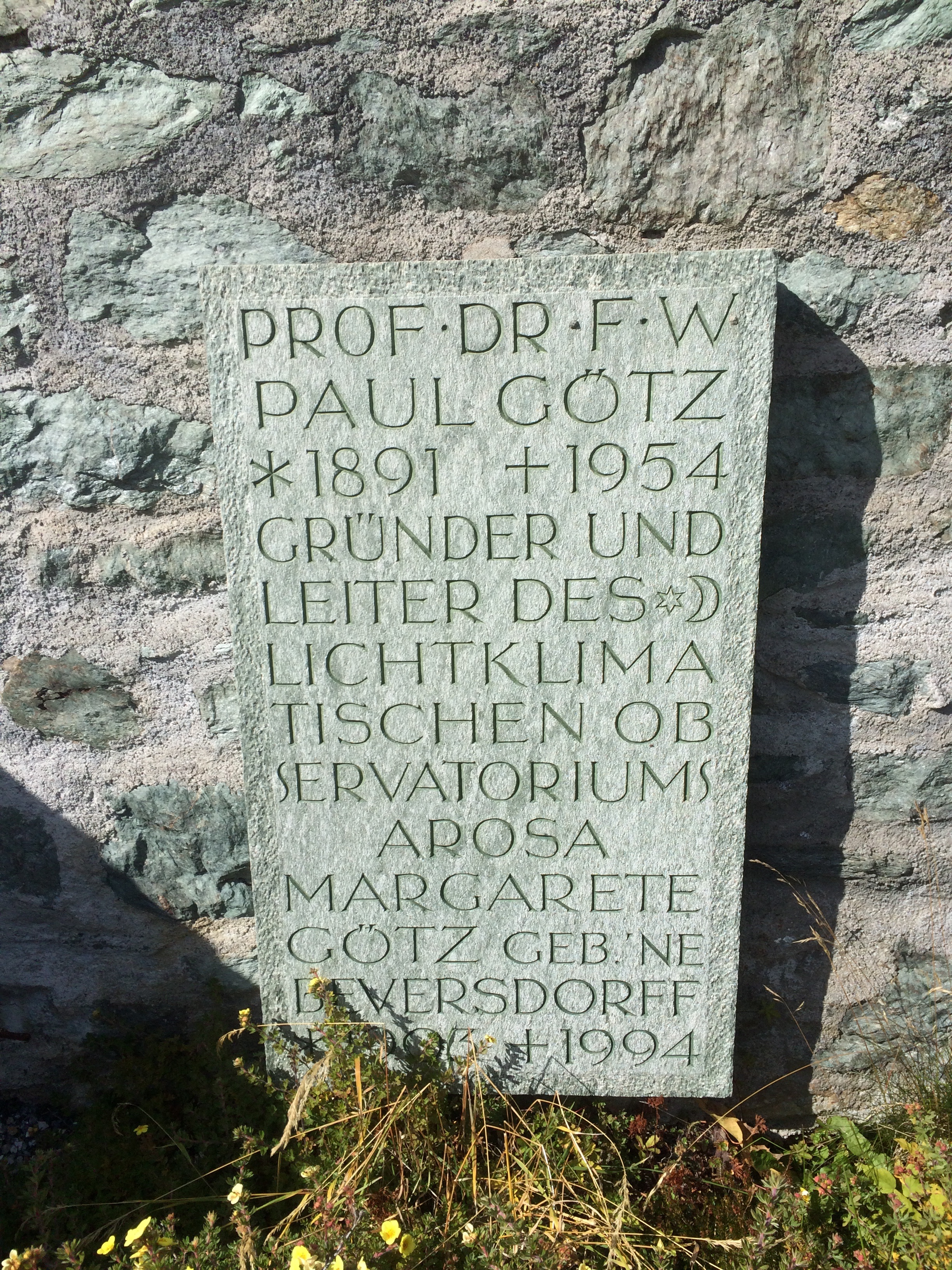 Grave of geophysicist Paul Goetz and his wife in Arosa/Switzerland